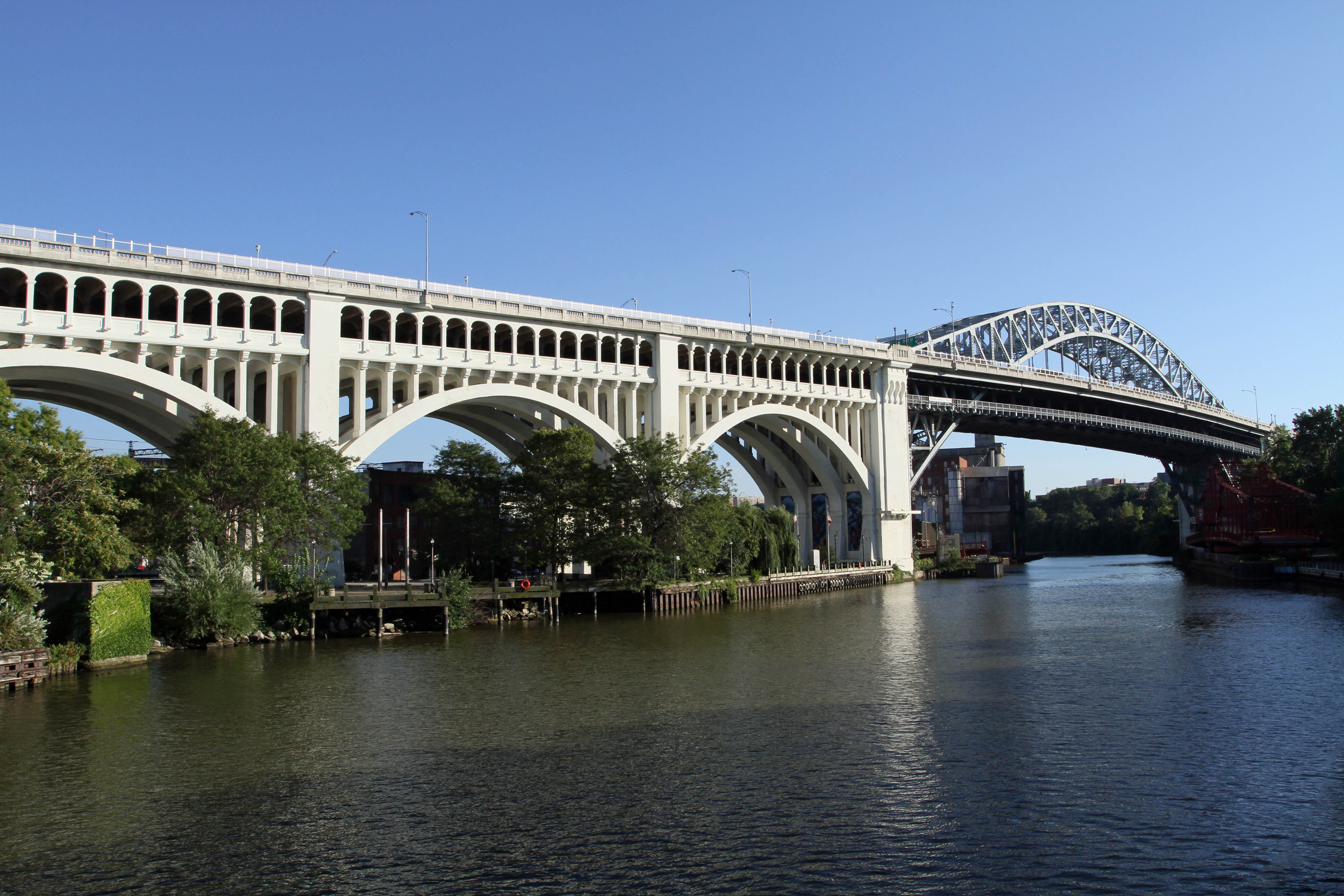 Detroit-Superior High Level Bridge